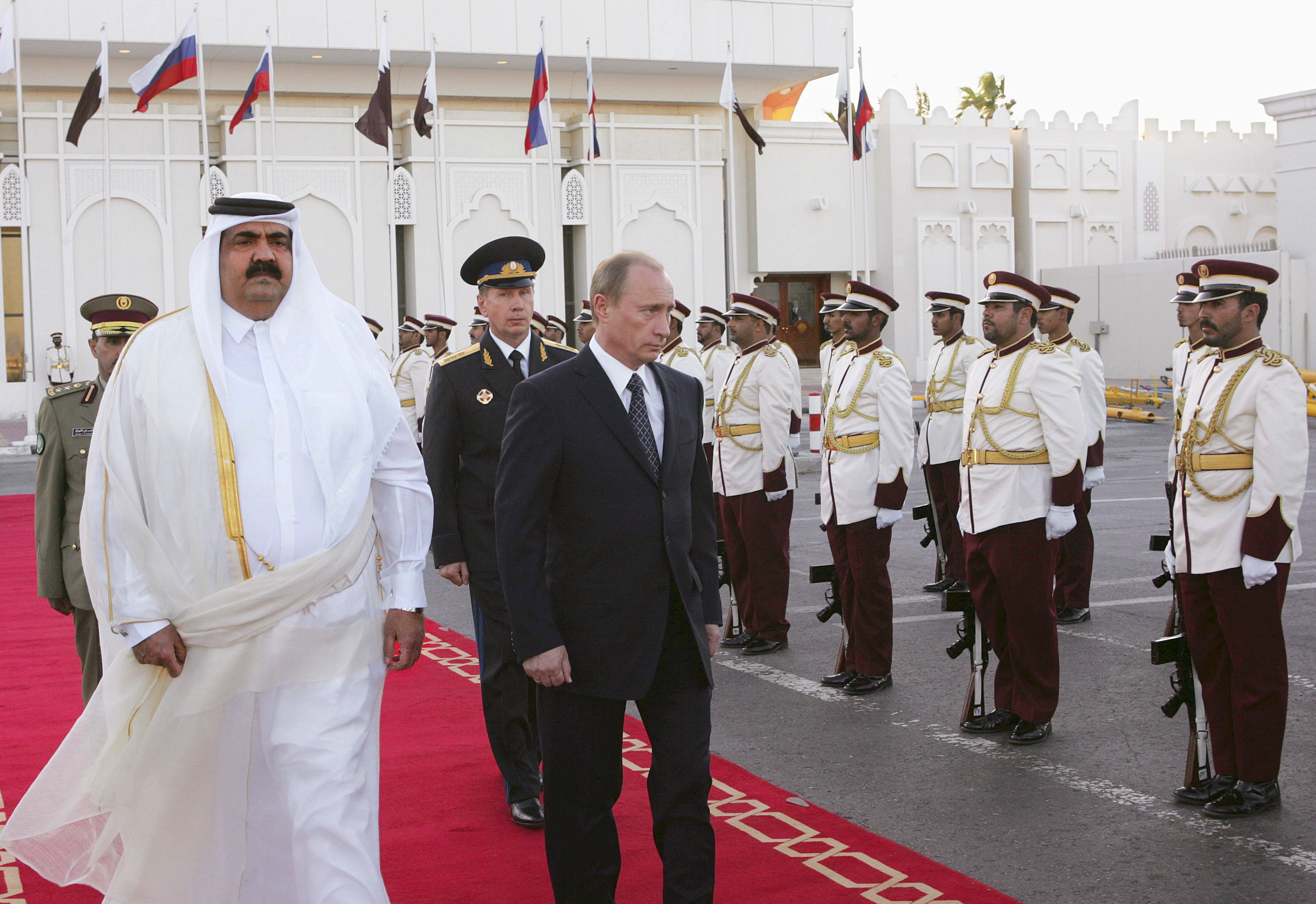 DOHA. At an official welcome ceremony with the Emir of Qatar, Sheikh Hamad bin Khalifa al-Thani.